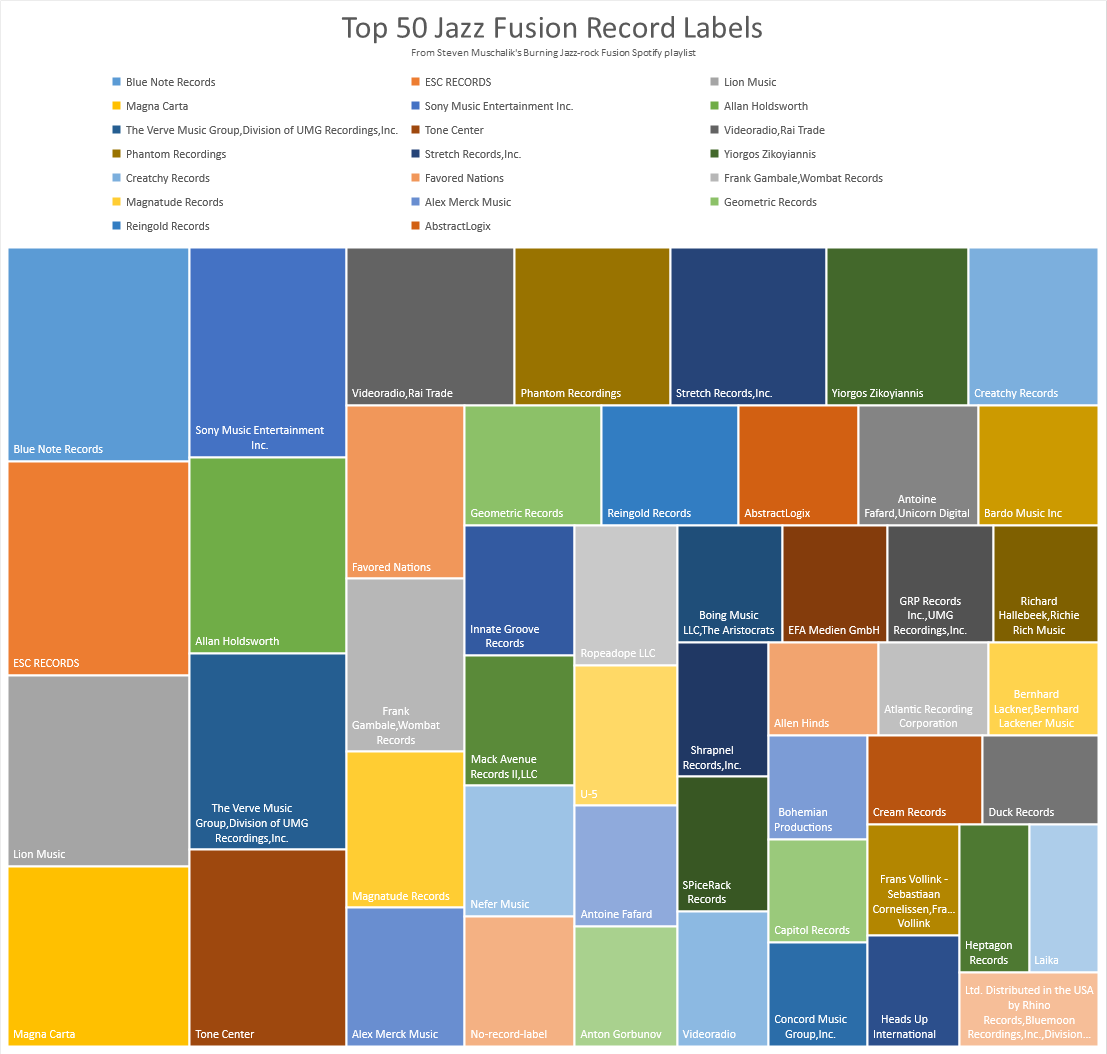 These are the top 50 record labels according to Steven Muschalik's analysis of over 1000 songs and 600 artists in jazz fusion.